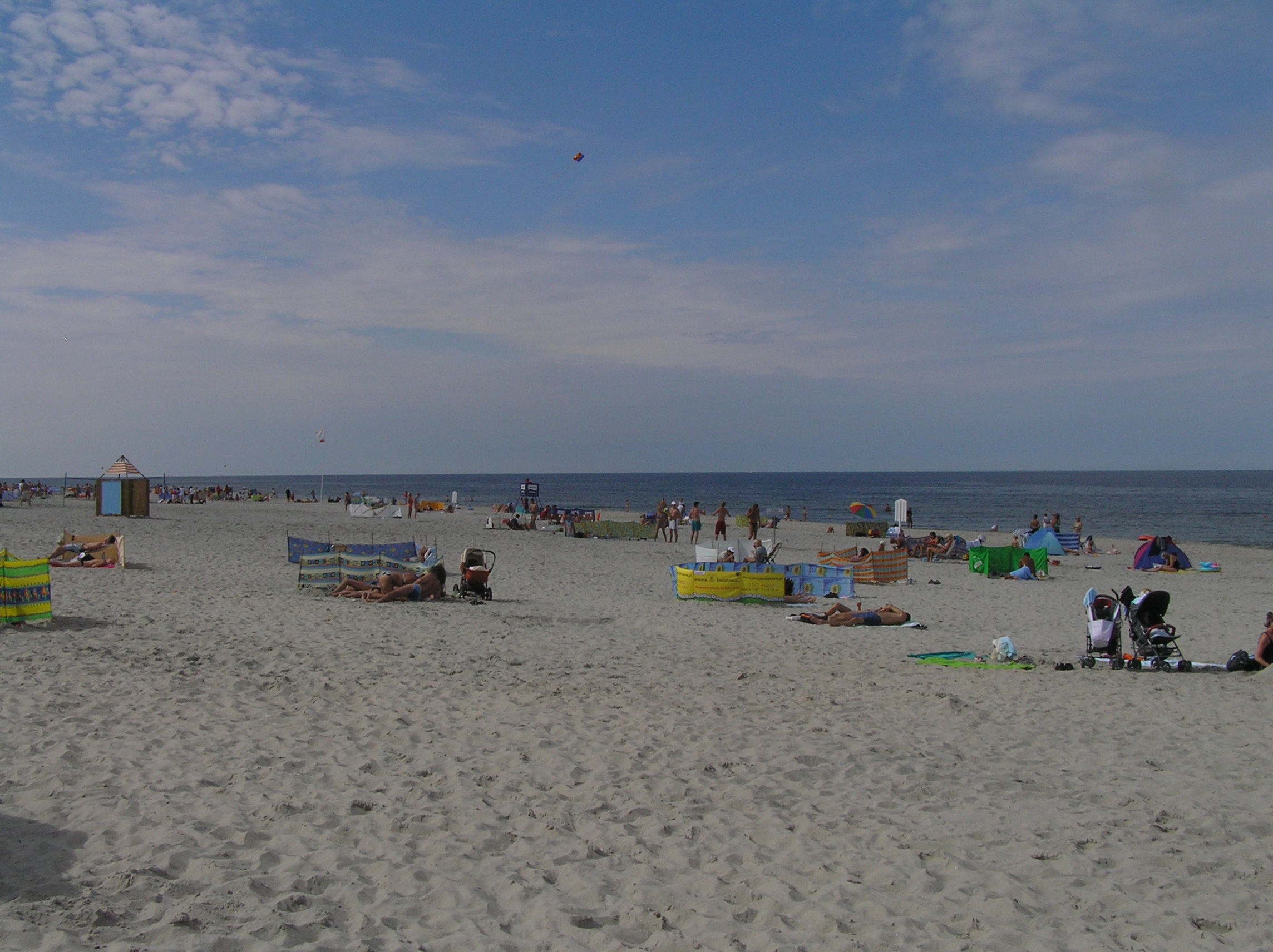 Beach in Jastarnia, Hel Peninsula